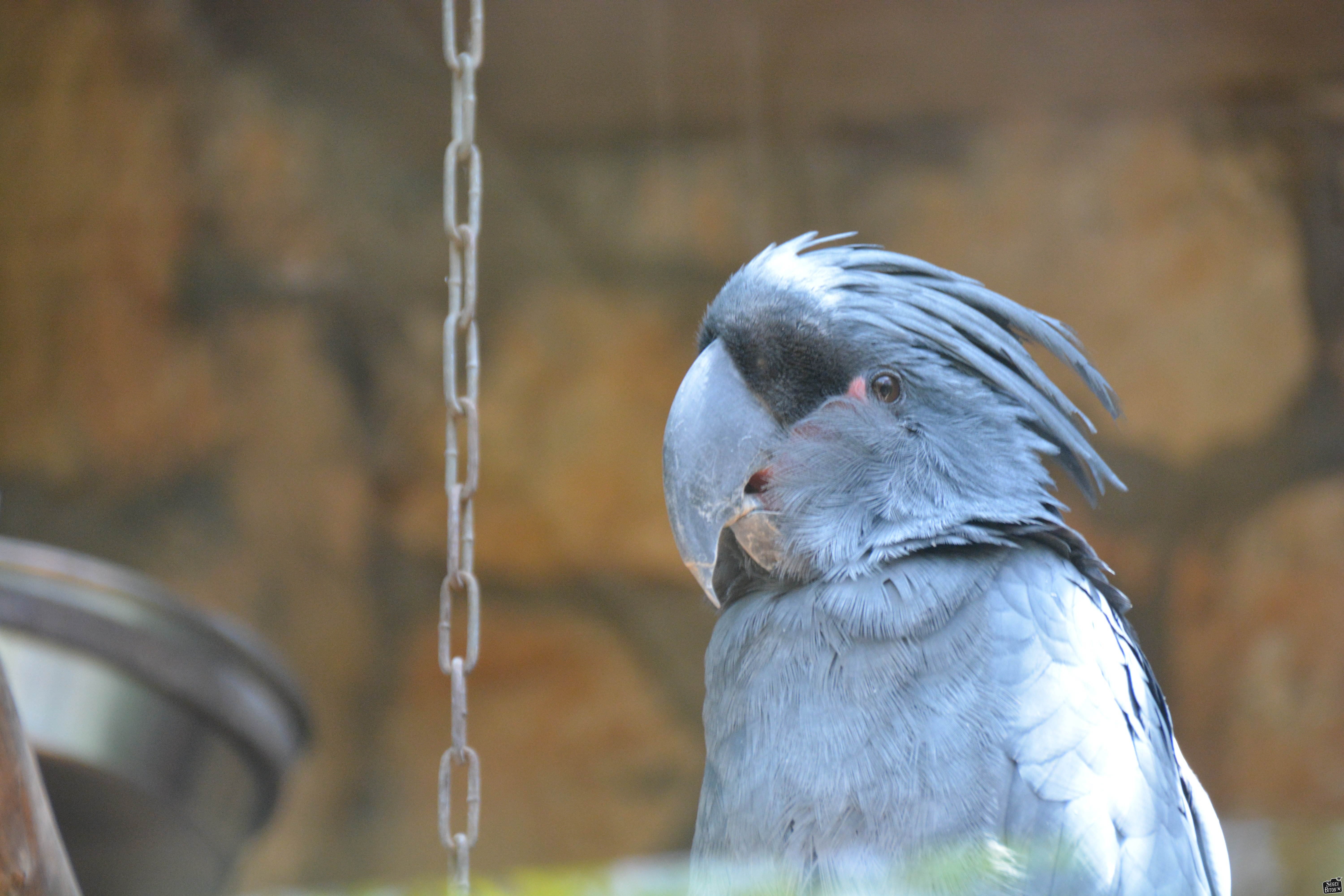 A Palm cockatoo at The Jerusalem Biblical Zoo